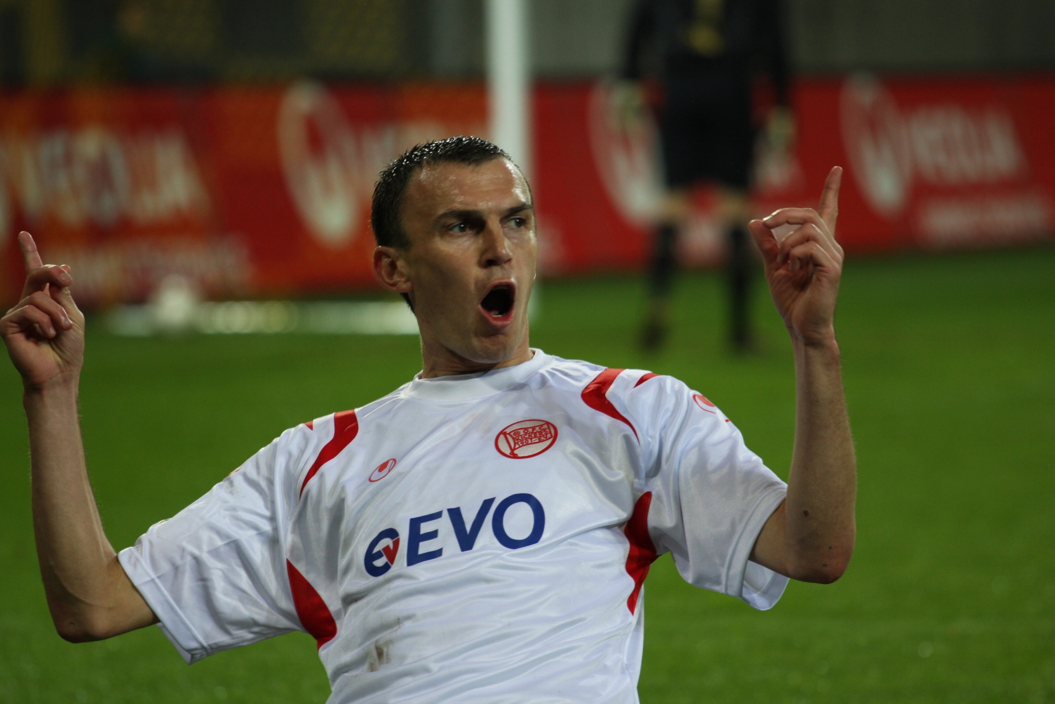 Robert Wulnikowski, Kickers Offenbach player, in a match against Dynamo Dresden